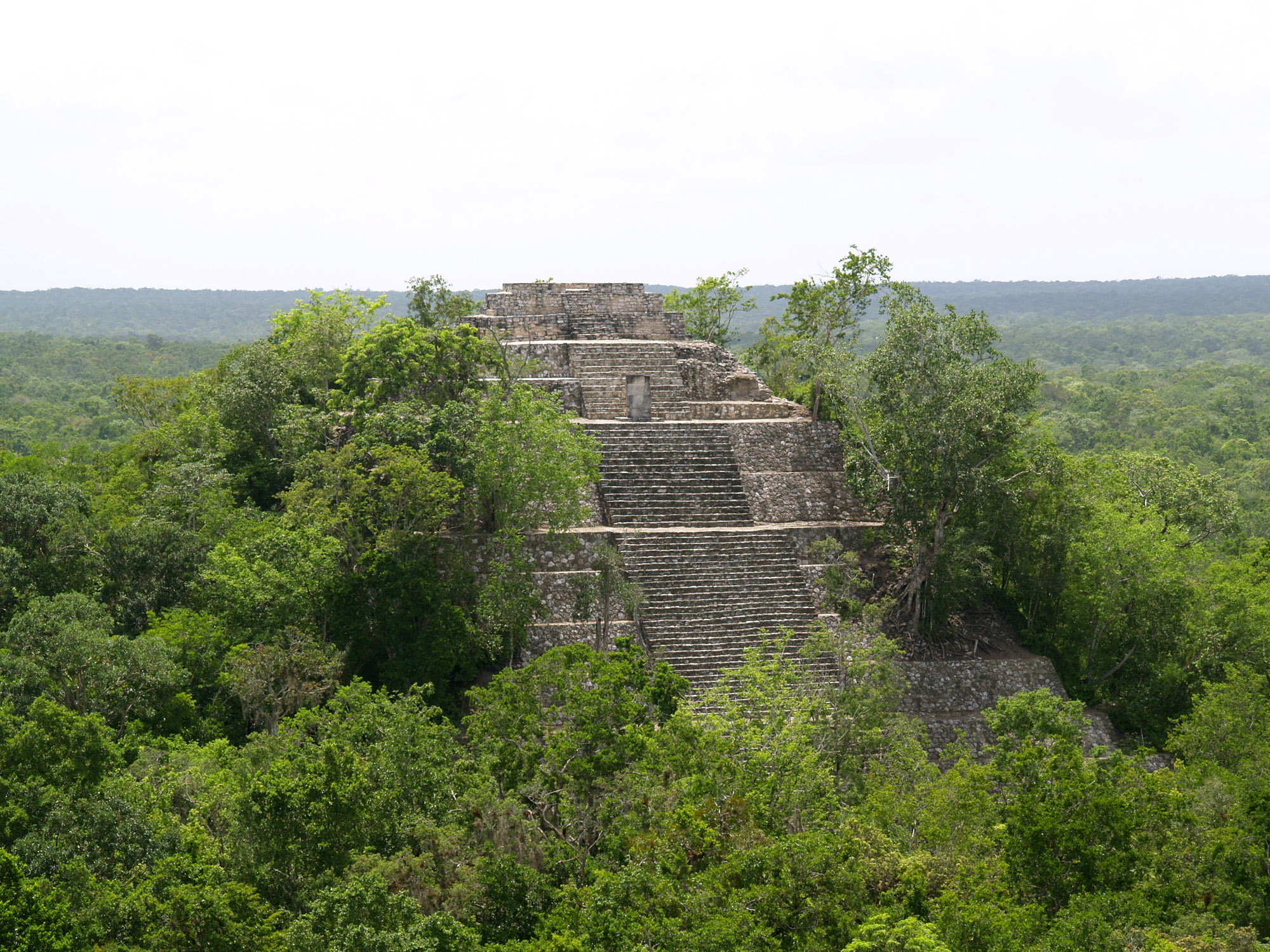 Site of Calakmul, Mexico - Structure I